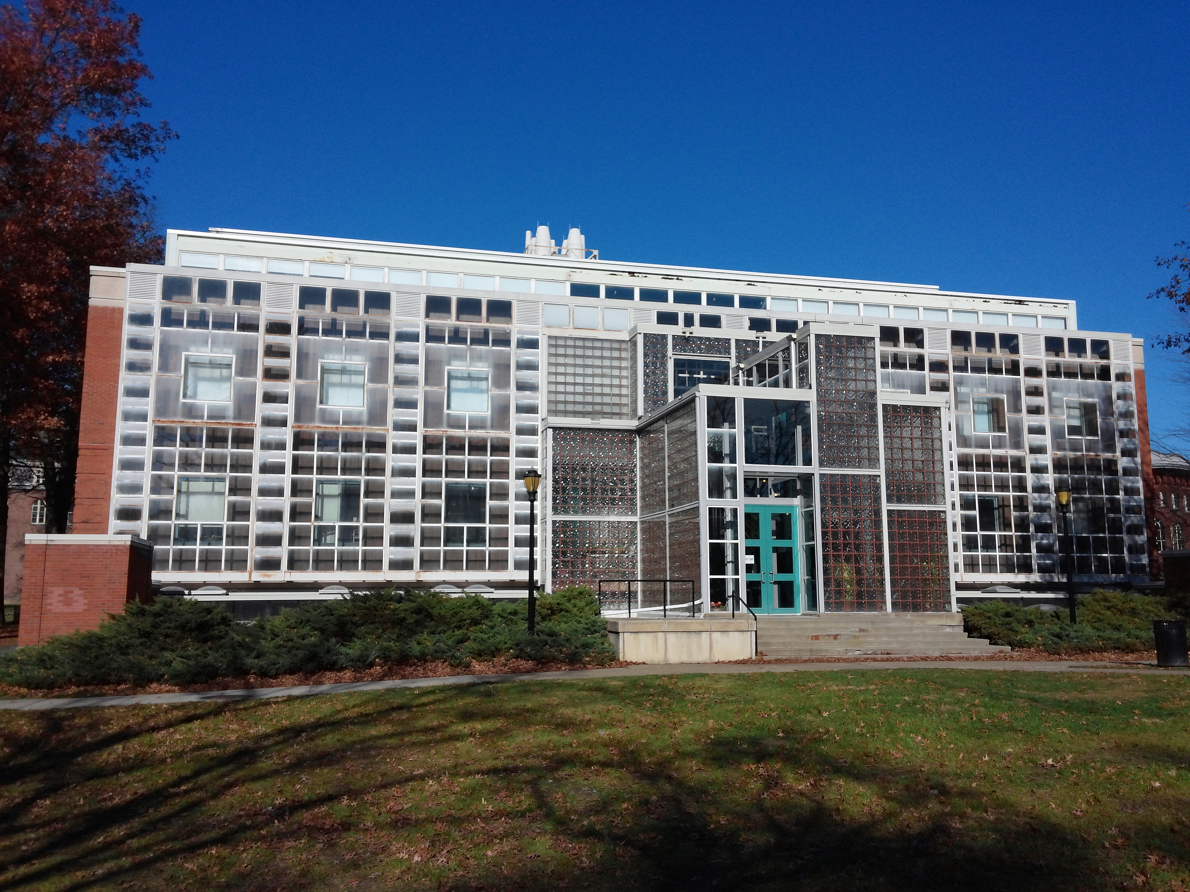 The Seeley G. Mudd Chemistry Building on the campus of Vassar College.